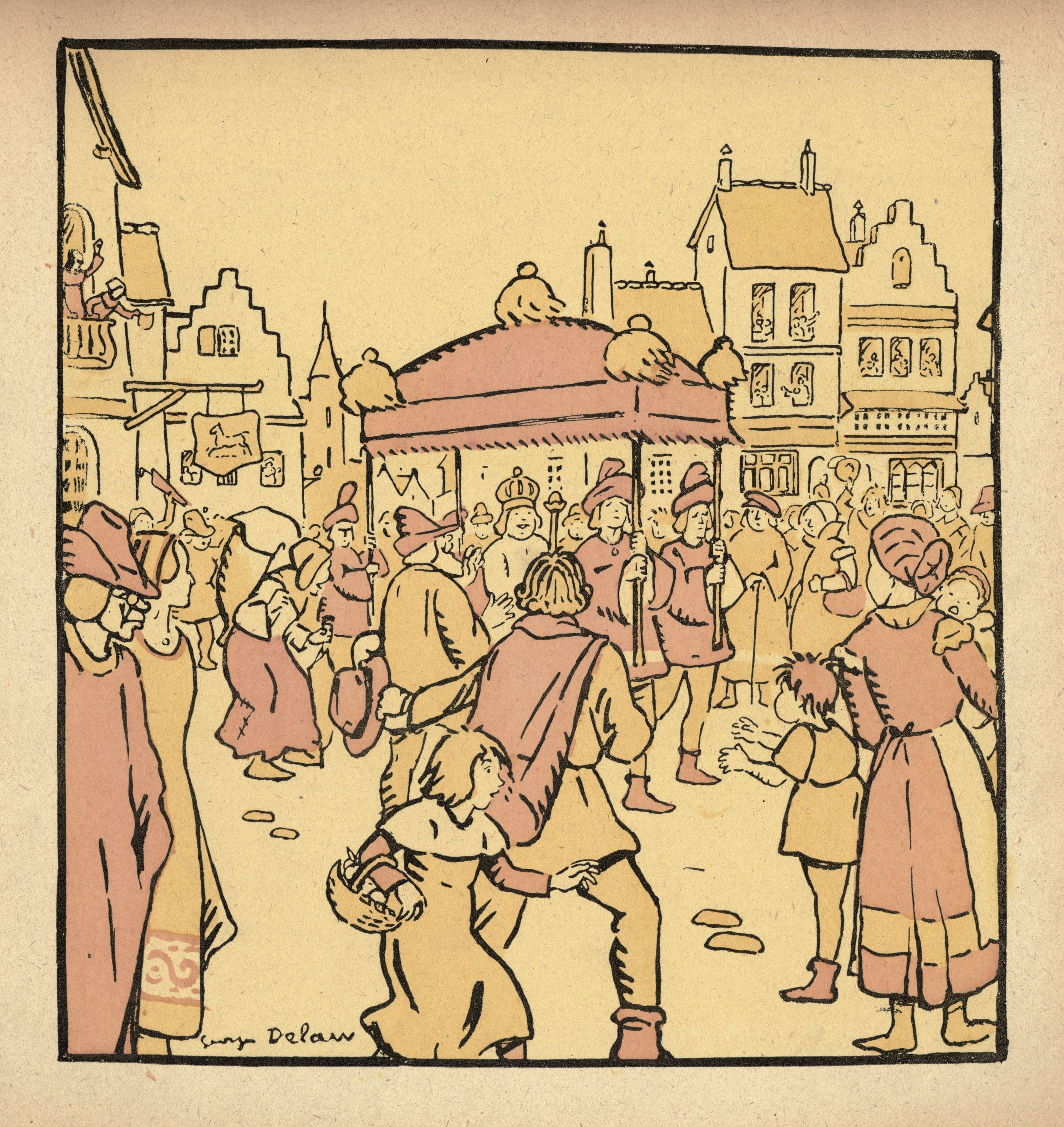 Contes d'Andersen / nouvellement traduits du danois par Wally-Anne Guégan ; décors et costumes de Georges Delaw. - Paris : Aux Éditions de La Sirène, 1920. Image uploaded on 02-10-2013 from the Flickr stream of the Royal Library, The Hague (Koninklijke Bibliotheek, KB, national library of the Netherlands)